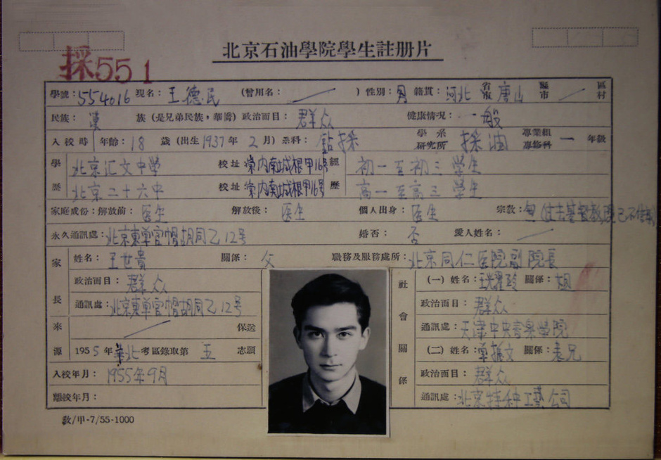 Wang Demin, Student Registration Card.